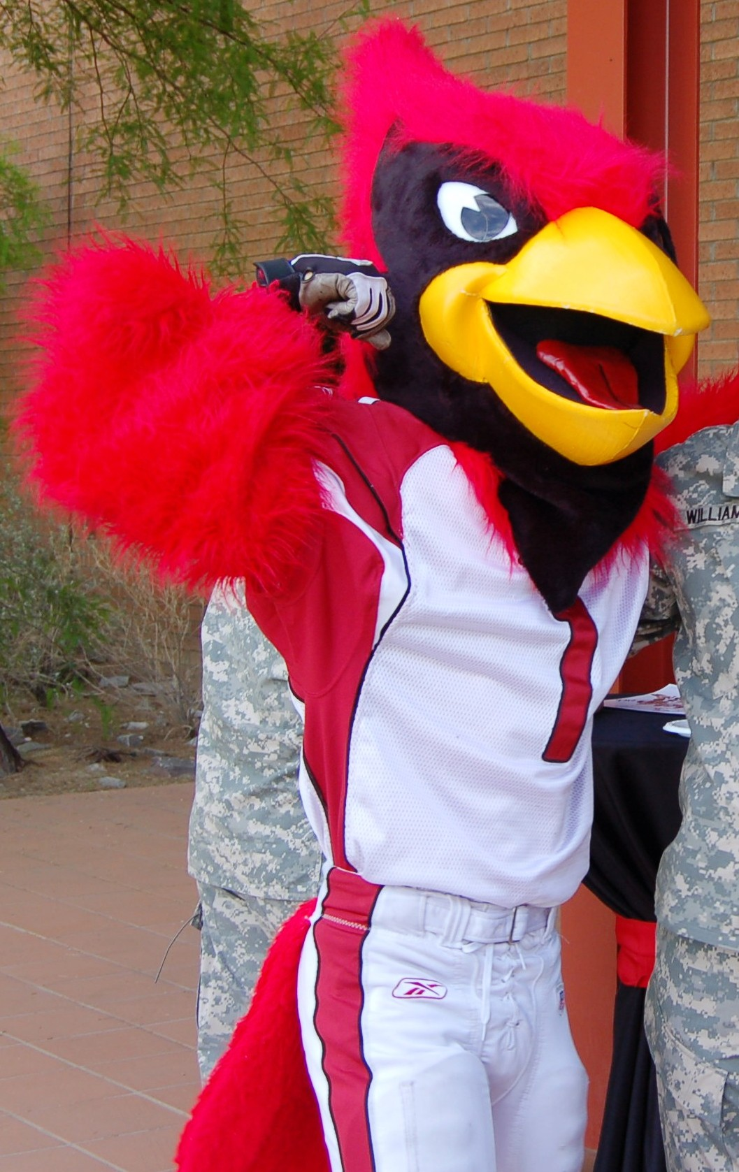 CSM Michael Williams meets Big Red, the Arizona Cardinals mascot, at the Arizona Cardinals Training Facility during the Phoenix Battalion's first community advisory board event in Tempe, Ariz., April 21, 2009.